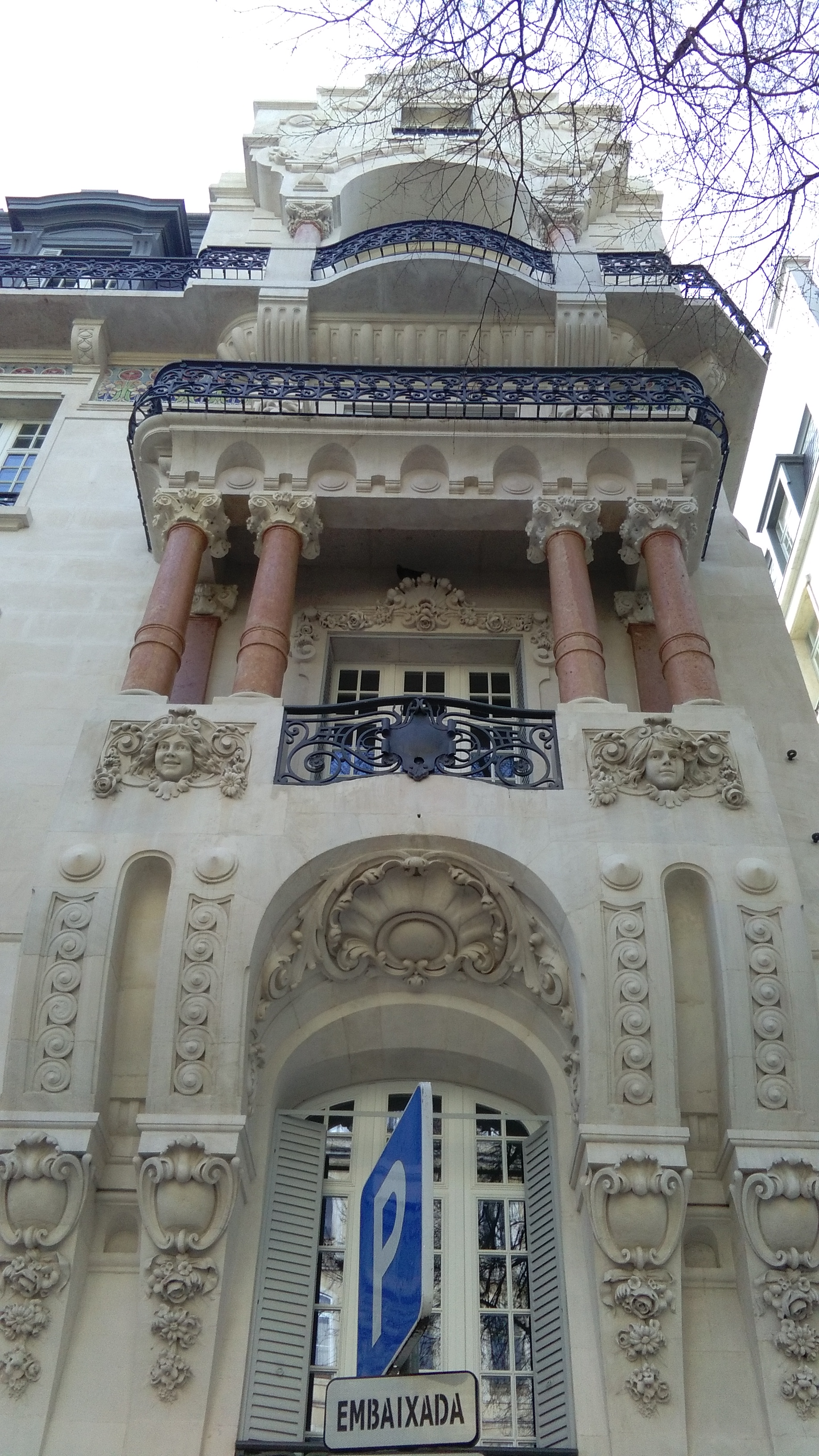 Building in Alexandre Herculano Street, 25, Lisbon, awarded the Valmor Prize in 1911. The building was designed by the architect Miguel Ventura Terra for António Tomás Quartim.